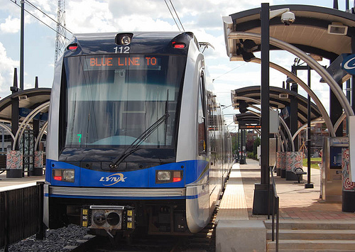 Carson Station on the LYNX Blue Line light rail system.